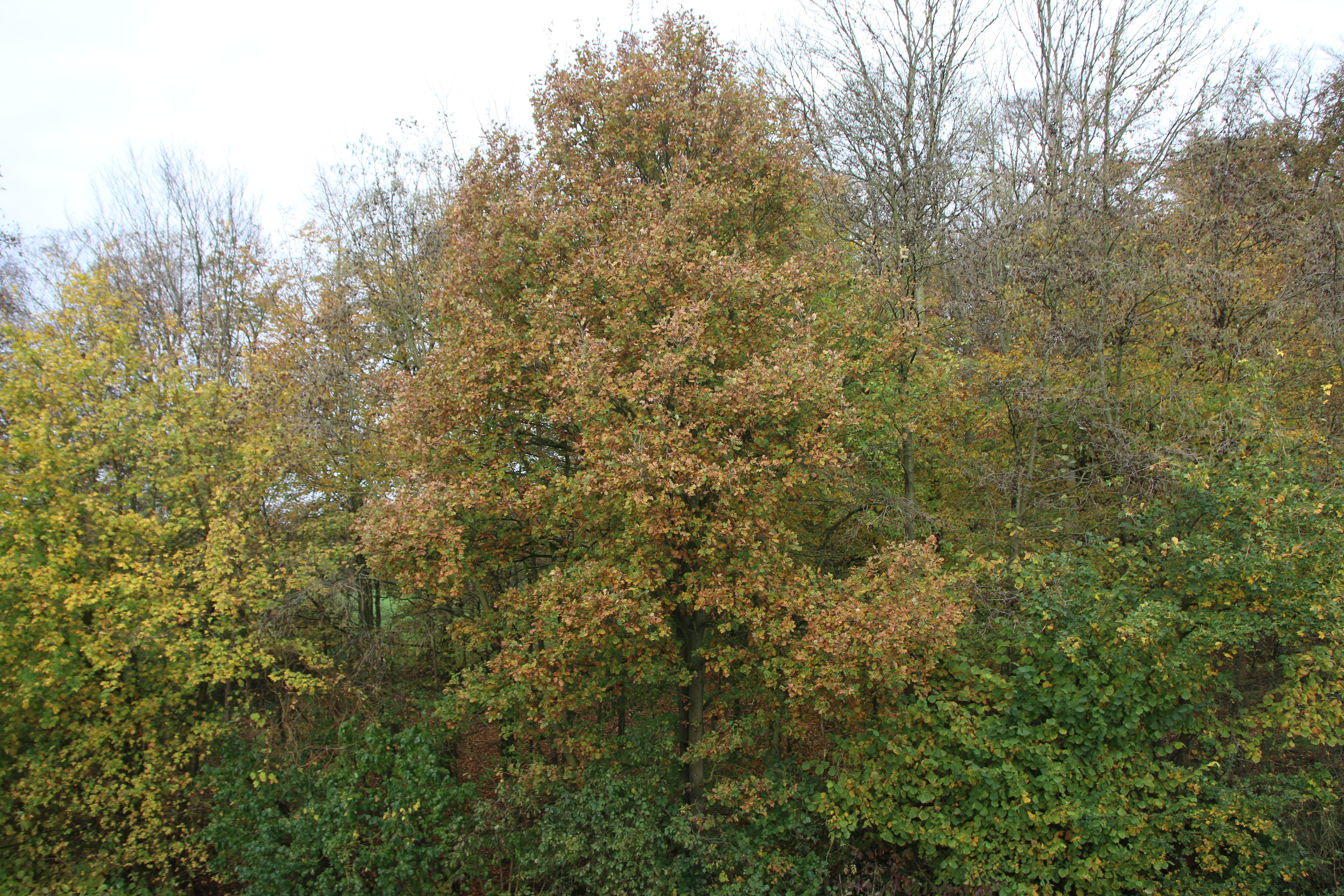 Photograph taken with a Canon EOS 70D without changing the settings from what I used to take earlier photographs.